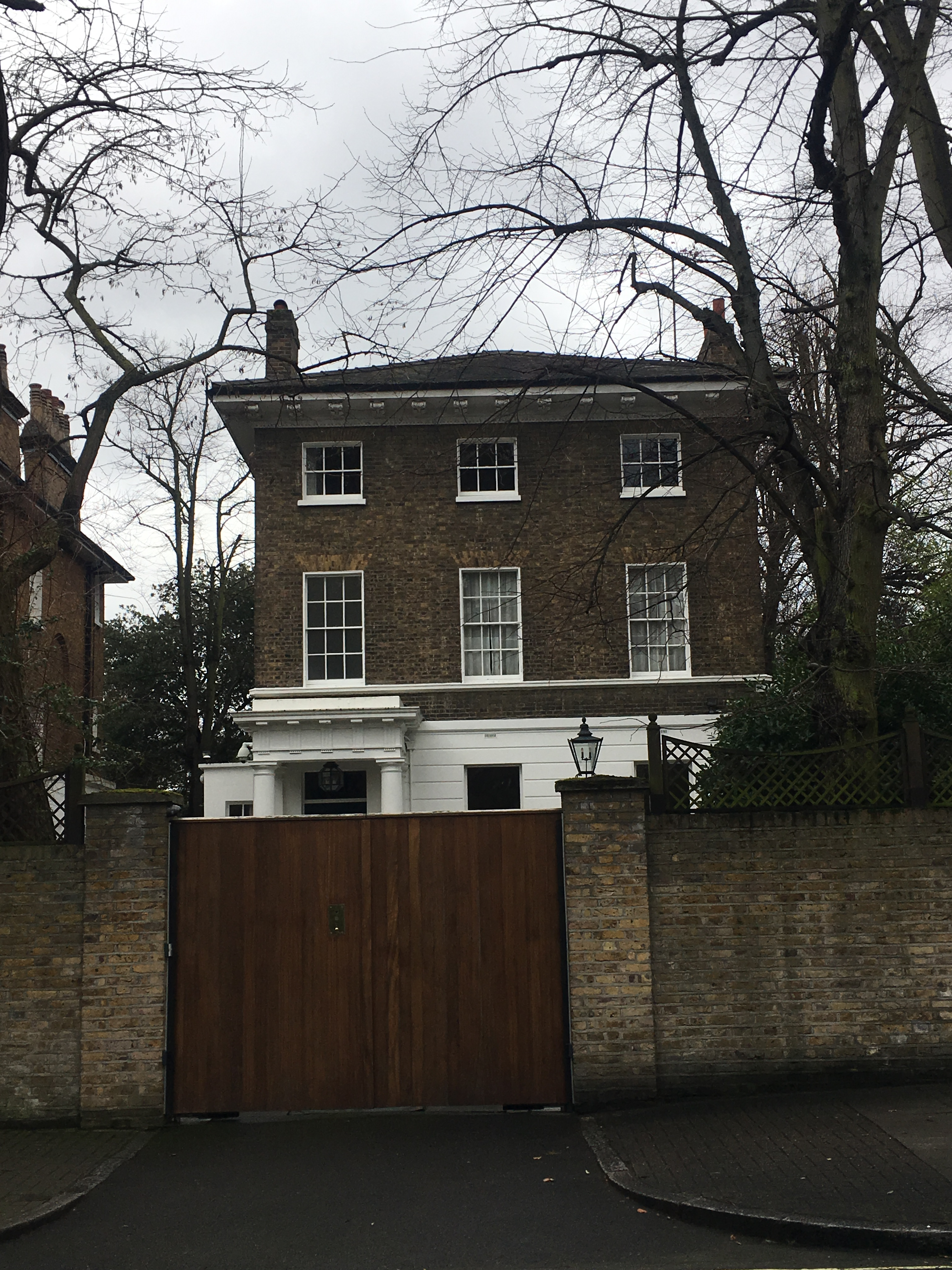 11, Cavendish Avenue Nw8 Wikidata has entry Q26639819 with data related to this item.